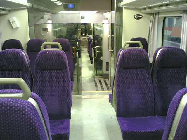 Cabin of a VR Class Sm4 electric multiple unit